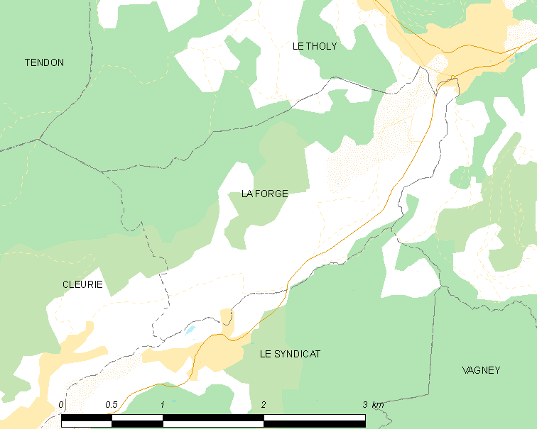 Map of French municipality La Forge